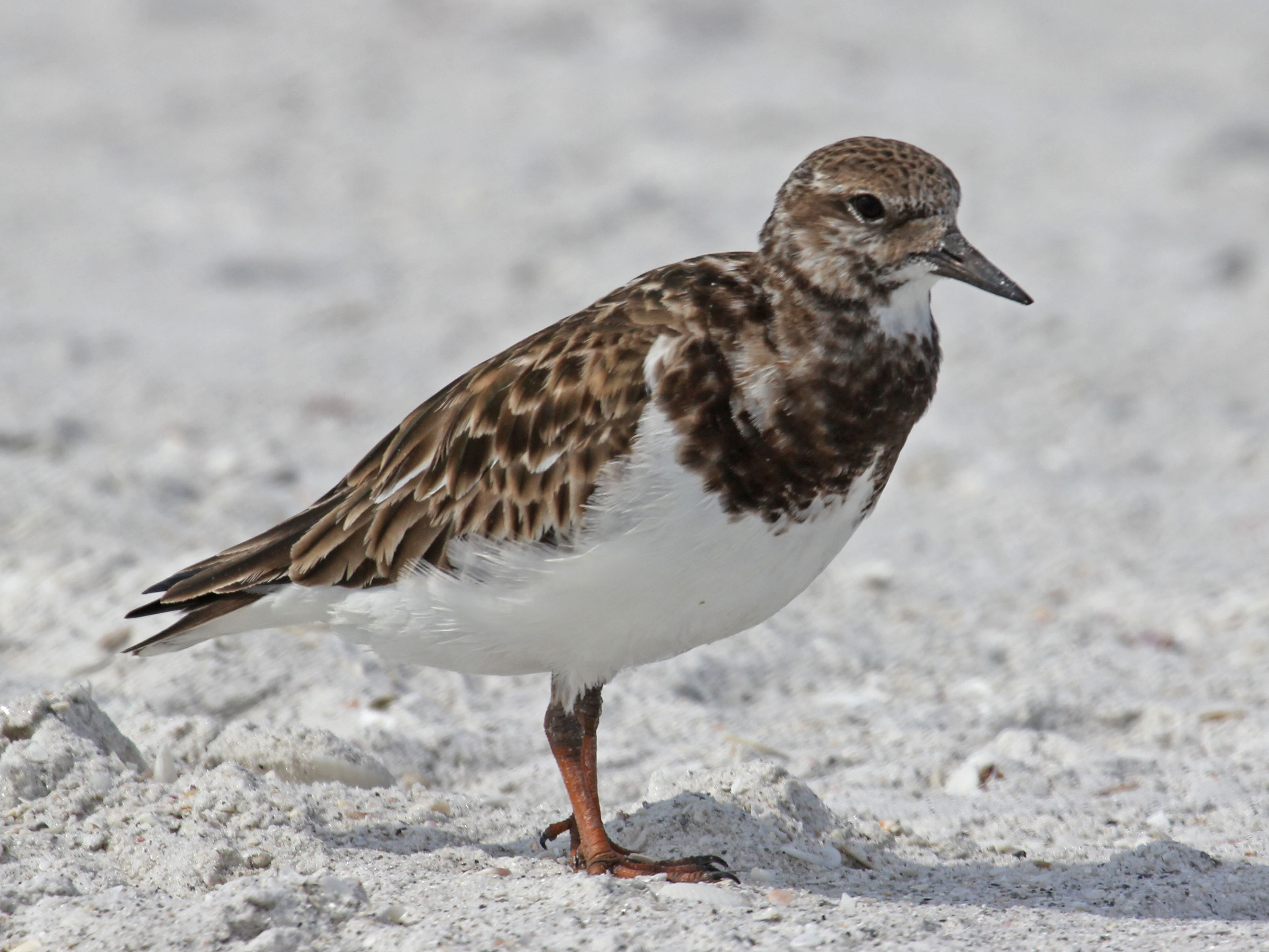 Ruddy Turnstone at Sanibel Island, Florida